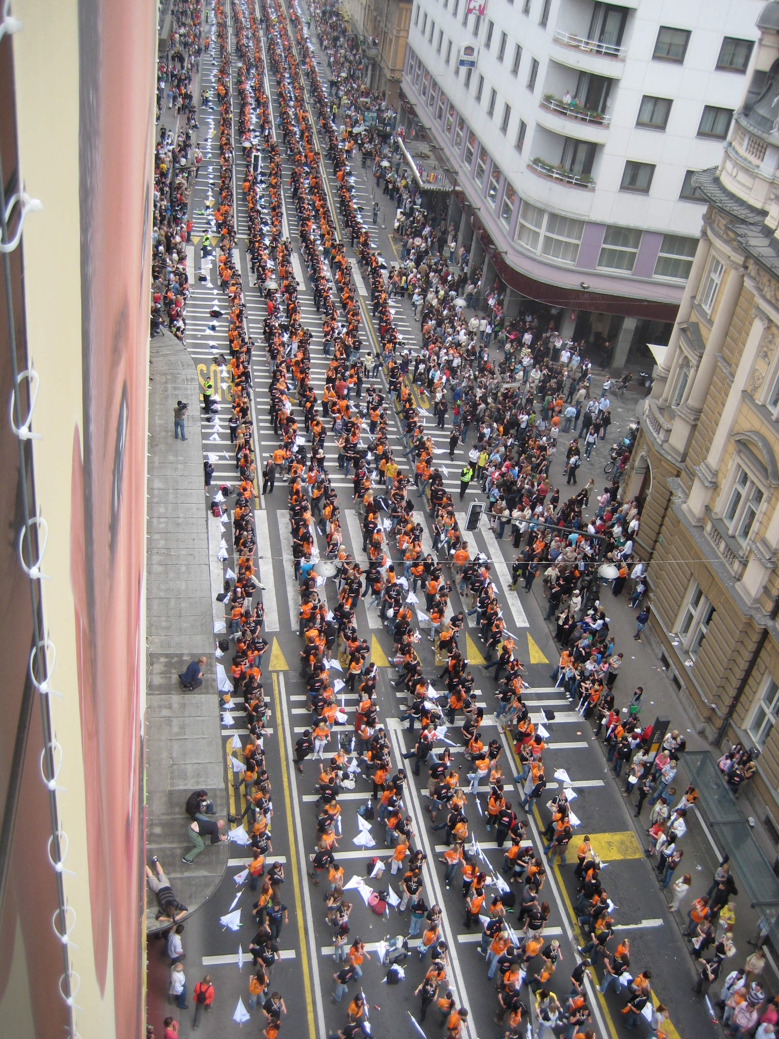 Maturantska parada, Ljubljana, 15.5.2009